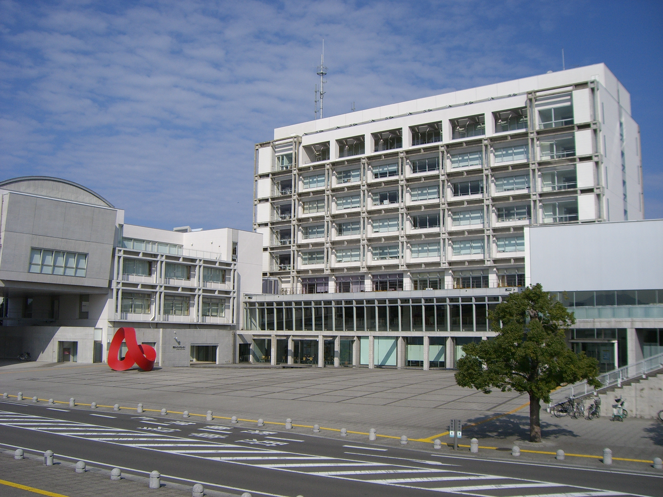 Kirishima City Hall in Kagoshima Prefecture, Japan.(鹿児島県霧島市市役所。)